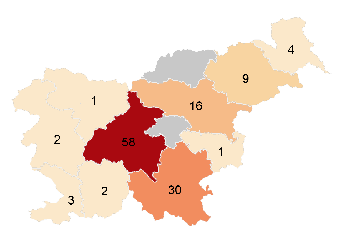 Map of confirmed COVID-19 cases in Slovenia as of March 13 2020 by 14:00 (141 cases, 126 in total shown on the map, exact location of 15 is unknown) Data obtained from: NIJZ (Slovenian National Institute of Public Health) Based on: File:Statistične regije Slovenije 2016.png